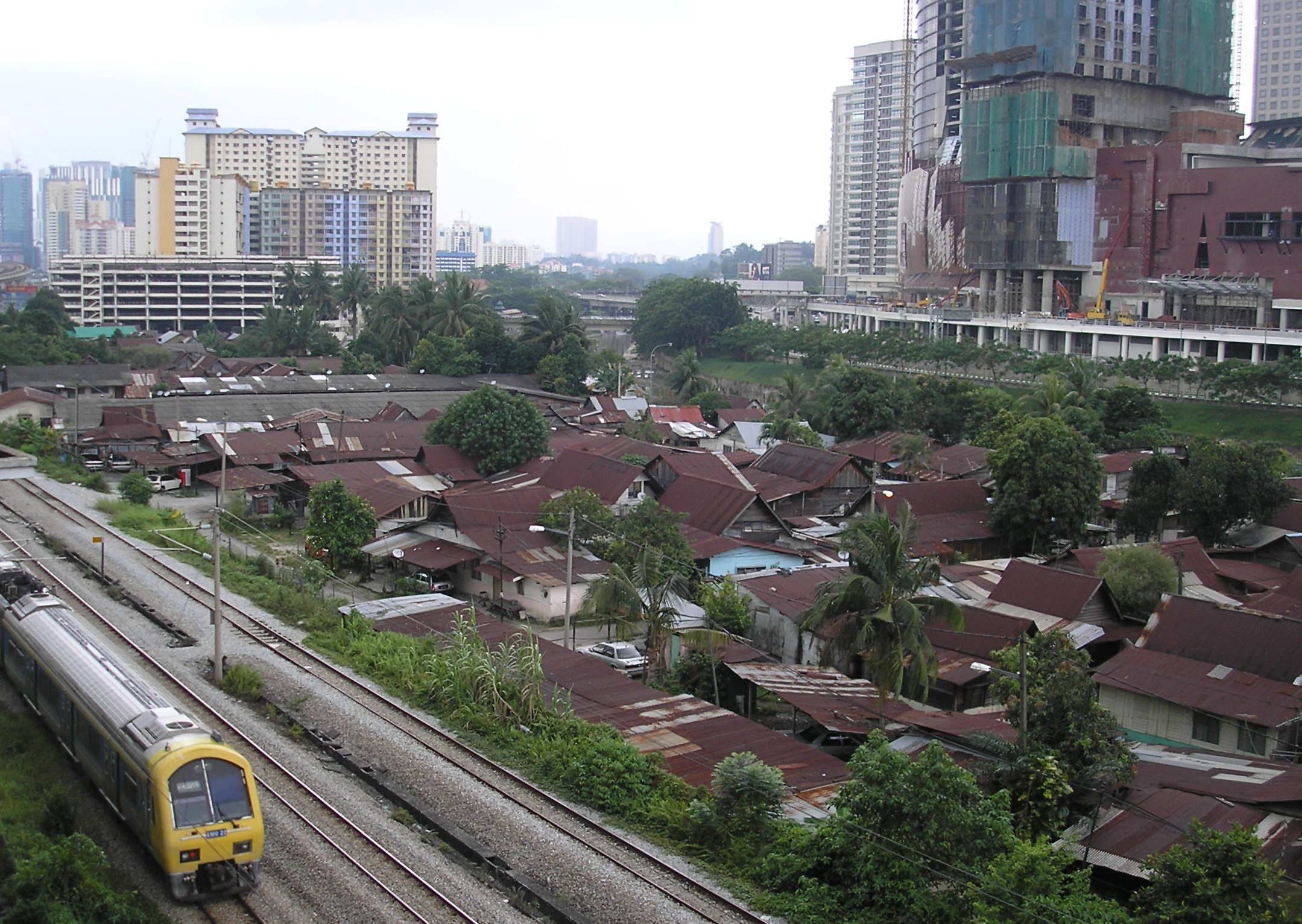 The urban village of Kampung Haji Abdullah Hukum, as seen towards the northeast from the Abdullah Hukum station (Kelana Jaya Line), in Kuala Lumpur, Malaysia. The Garden Mid Valley is seen toward the right, incomplete at the time this picture was taken. Kuala Lumpur Sentral's office towers are visible far in the background towards the left. The train tracks at the bottom left side (with a passing KTM Komuter train) lead to Port Klang.